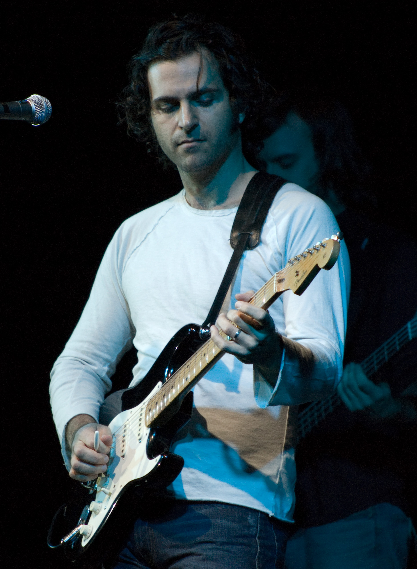 Dweezil Zappa in Denmark with Zappa Plays Zappa, October 13, 2007